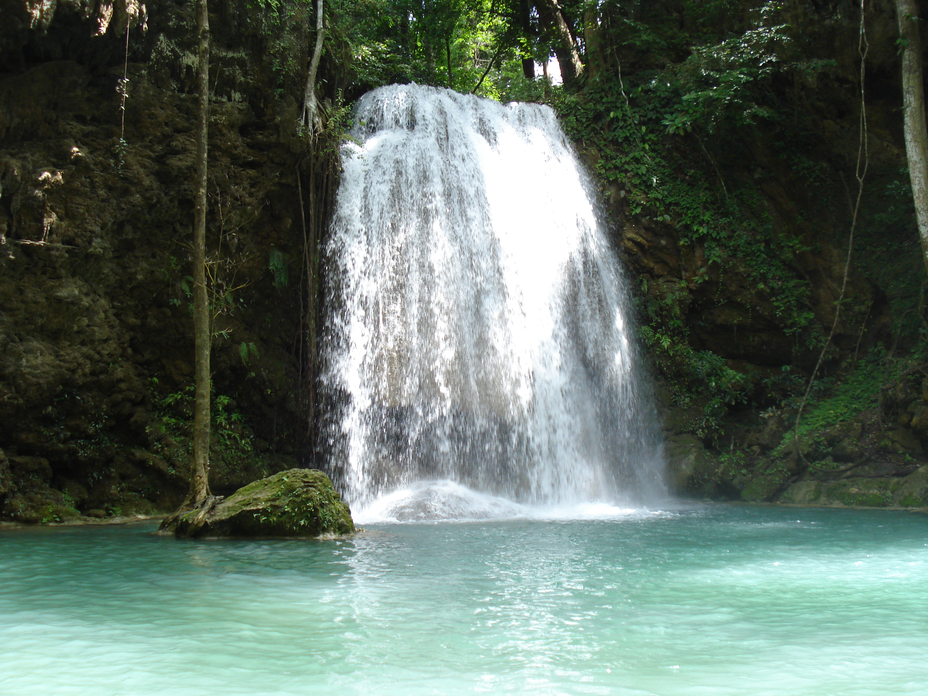 Erawan waterfall